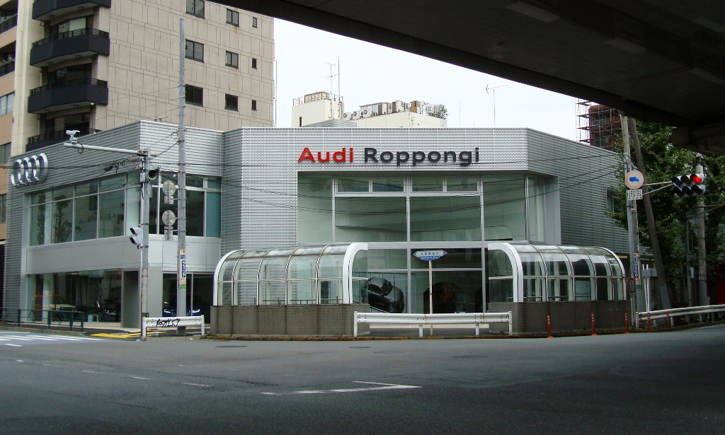 Former Roppongi Showroom of Mizwa Motors, Roppongi, Tokyo